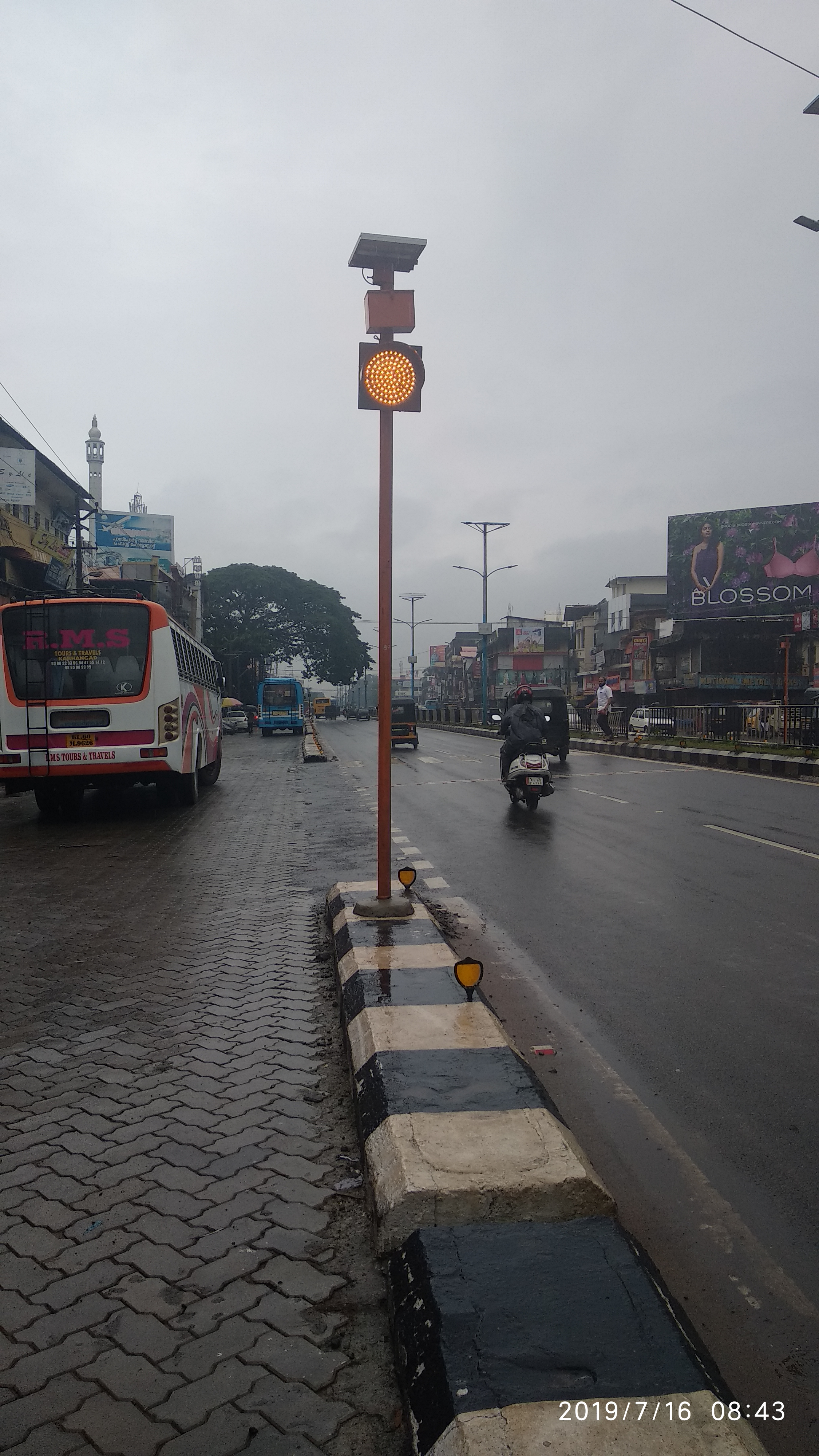 Belisha beacon_at Kanhangad